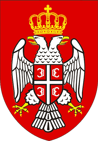 Original Coat of Arms of Republika Srpska